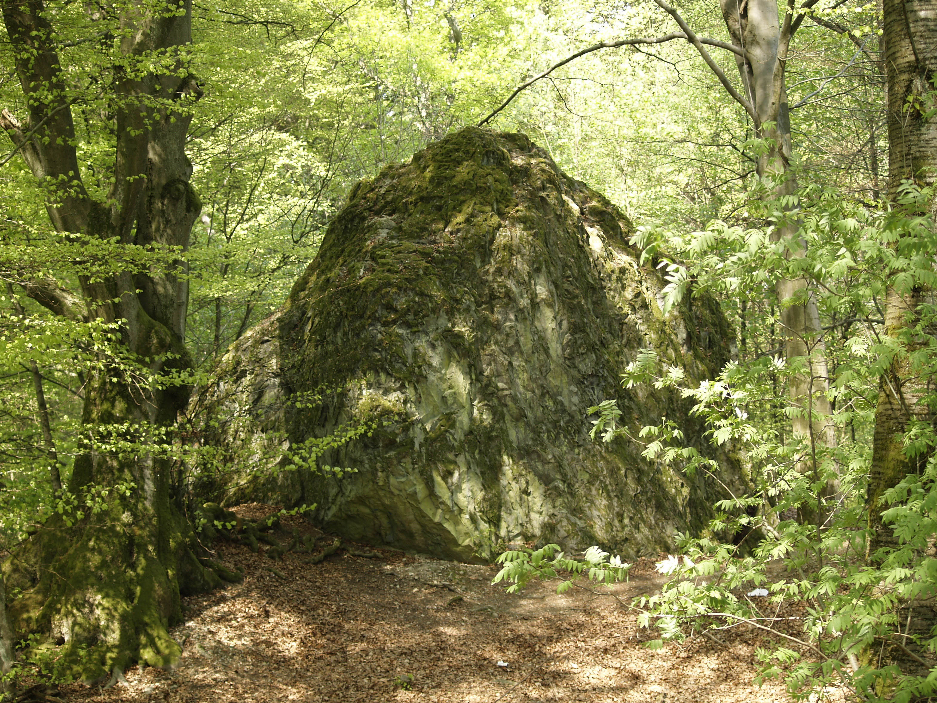 So called "Beilstein" in Oberdreis forest